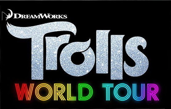 I'M RAPHAEL